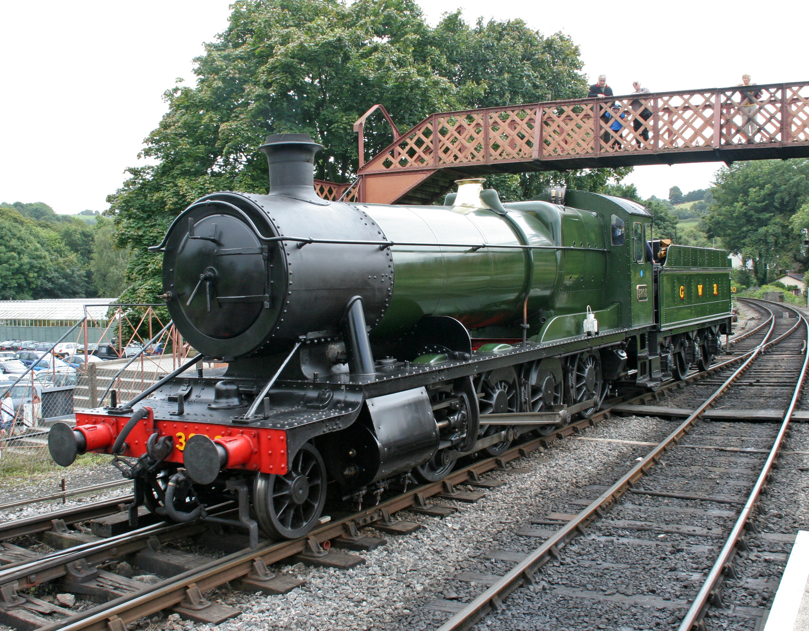 GWR 3803 2-8-0 Heavy Freight Loco at Buckfastleigh on the South Devon Railway